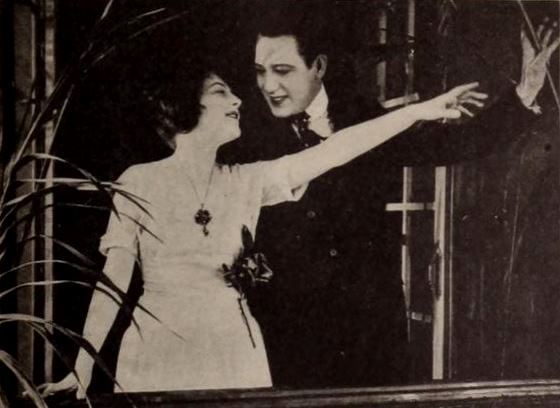 Still from the American drama film The Unchastened Woman (1918) with Grace Valentine and Victor Sutherland (1889–1968), on page 25 of the May 11, 1918 Exhibitors Herald.